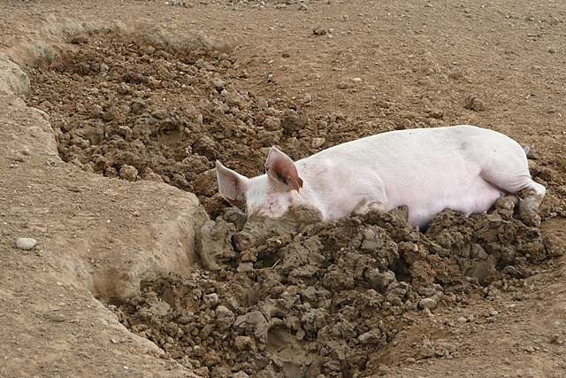 As happy as a pig in muck Pigs are clean animals. But they do like their mud baths, mainly to keep cool. They get sunburnt quite easily.